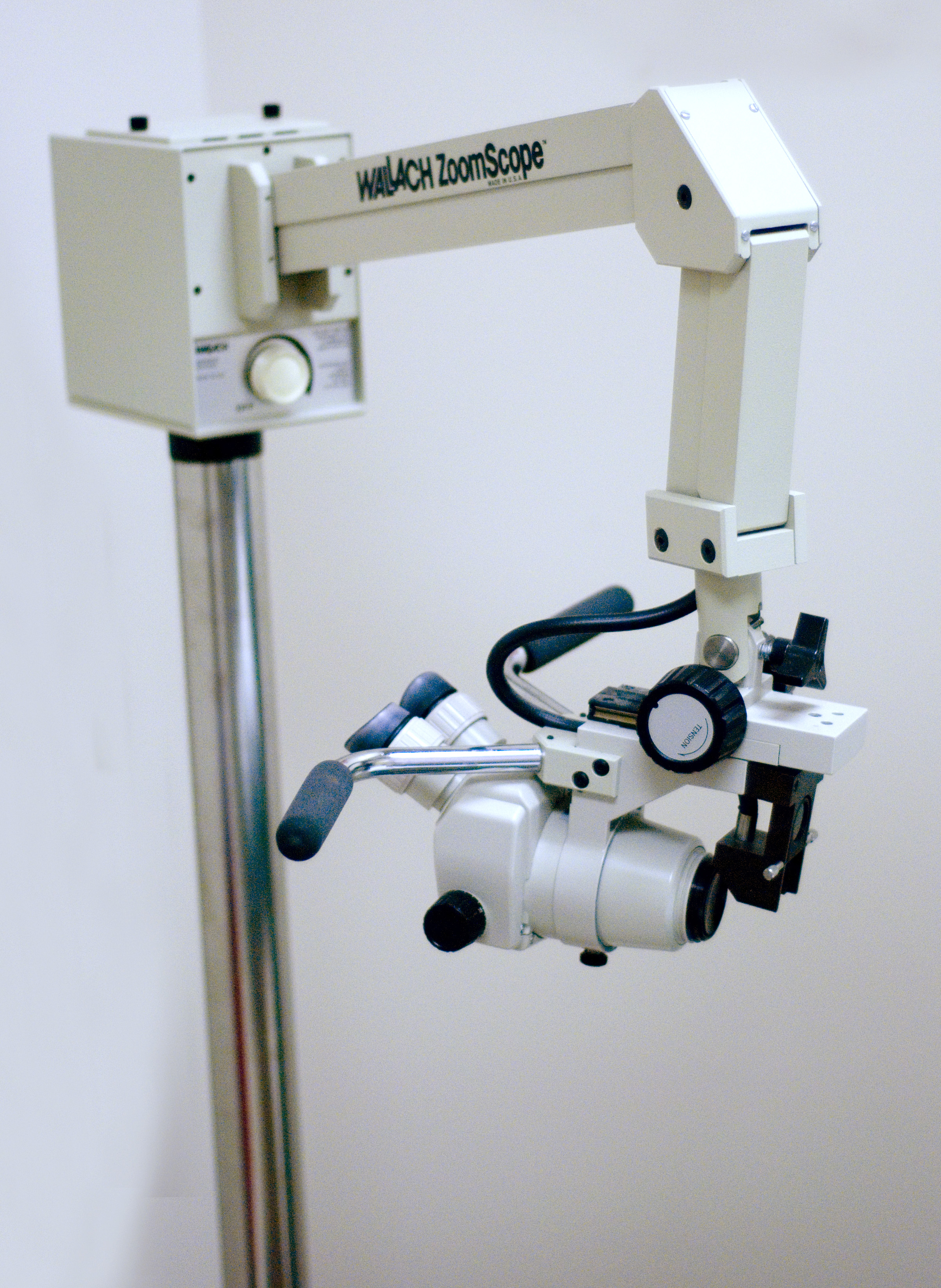 Image of Colposcope